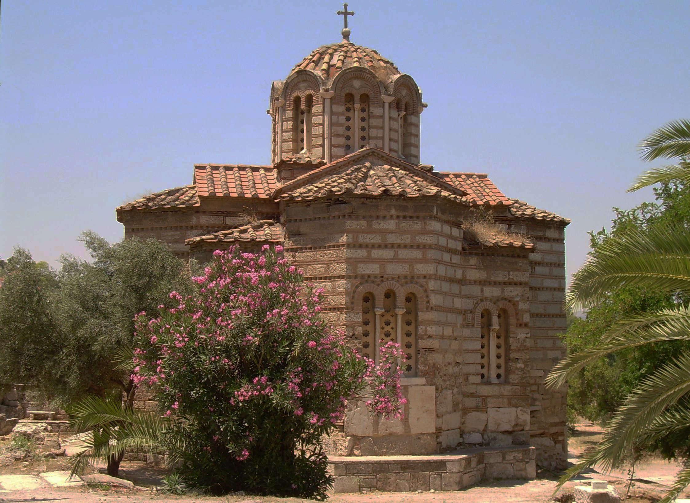 Bizanthian church Agii Apostoli (Holy Apostles), Agora of Athens.